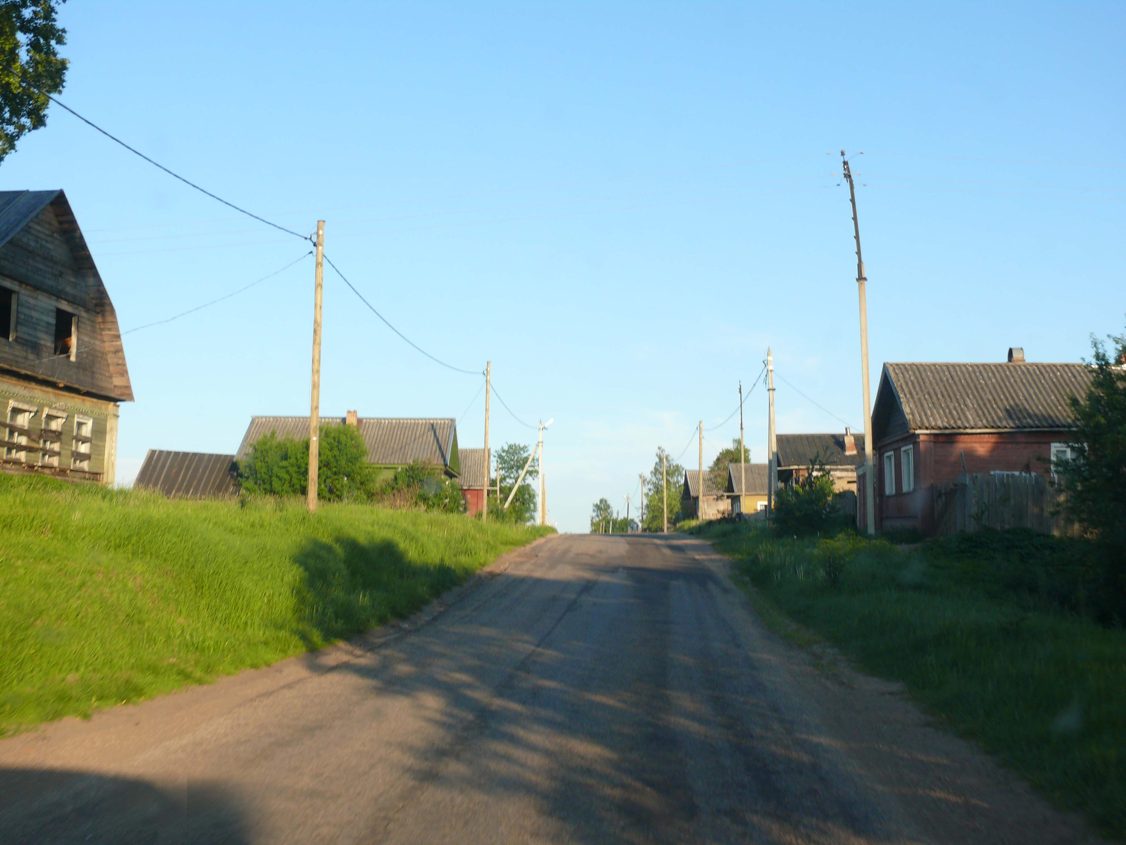 Yogla village. Borovichsky district, Novgorod oblast, Russia